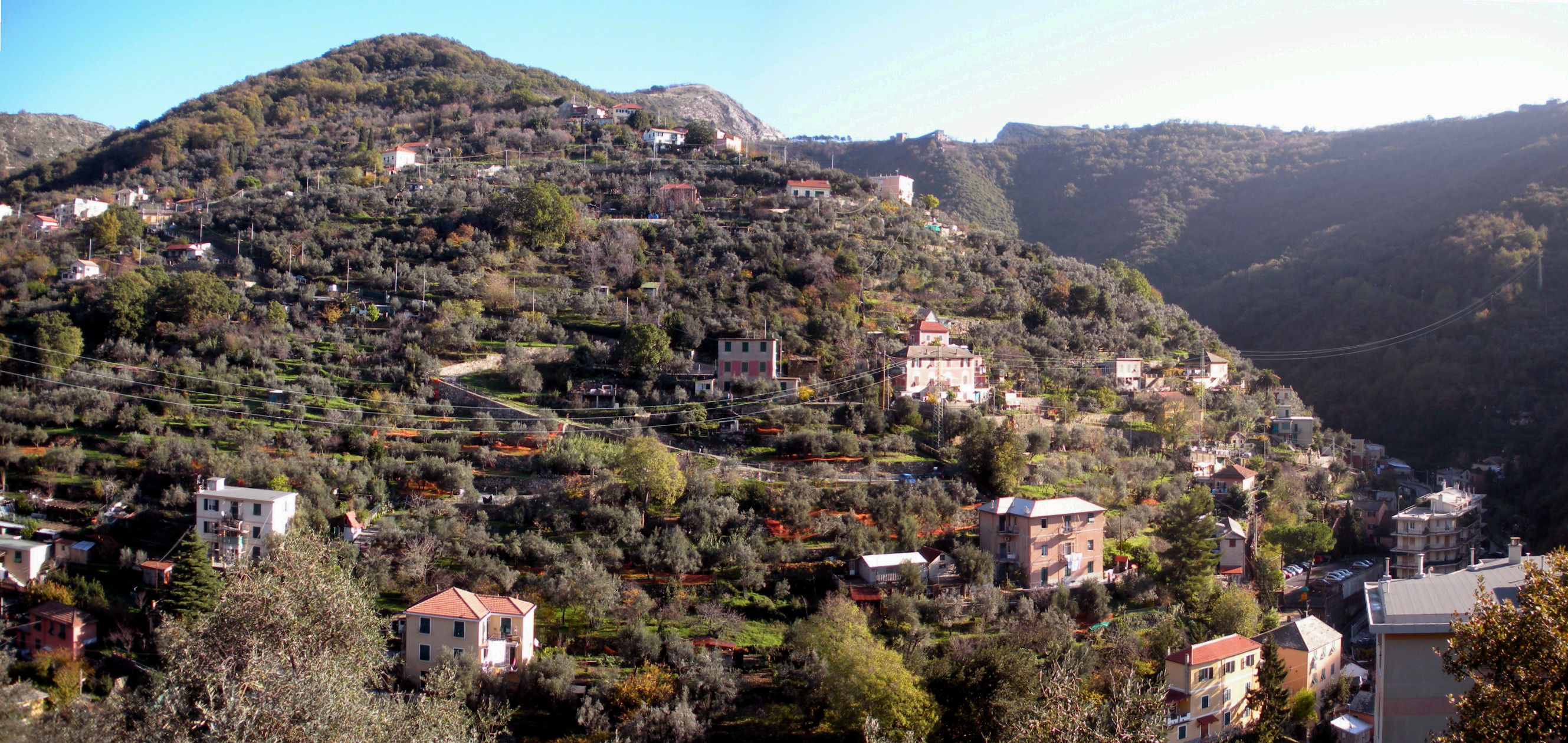 Genoa (Italy), quarter of Quezzi, view of the hill of Egoli